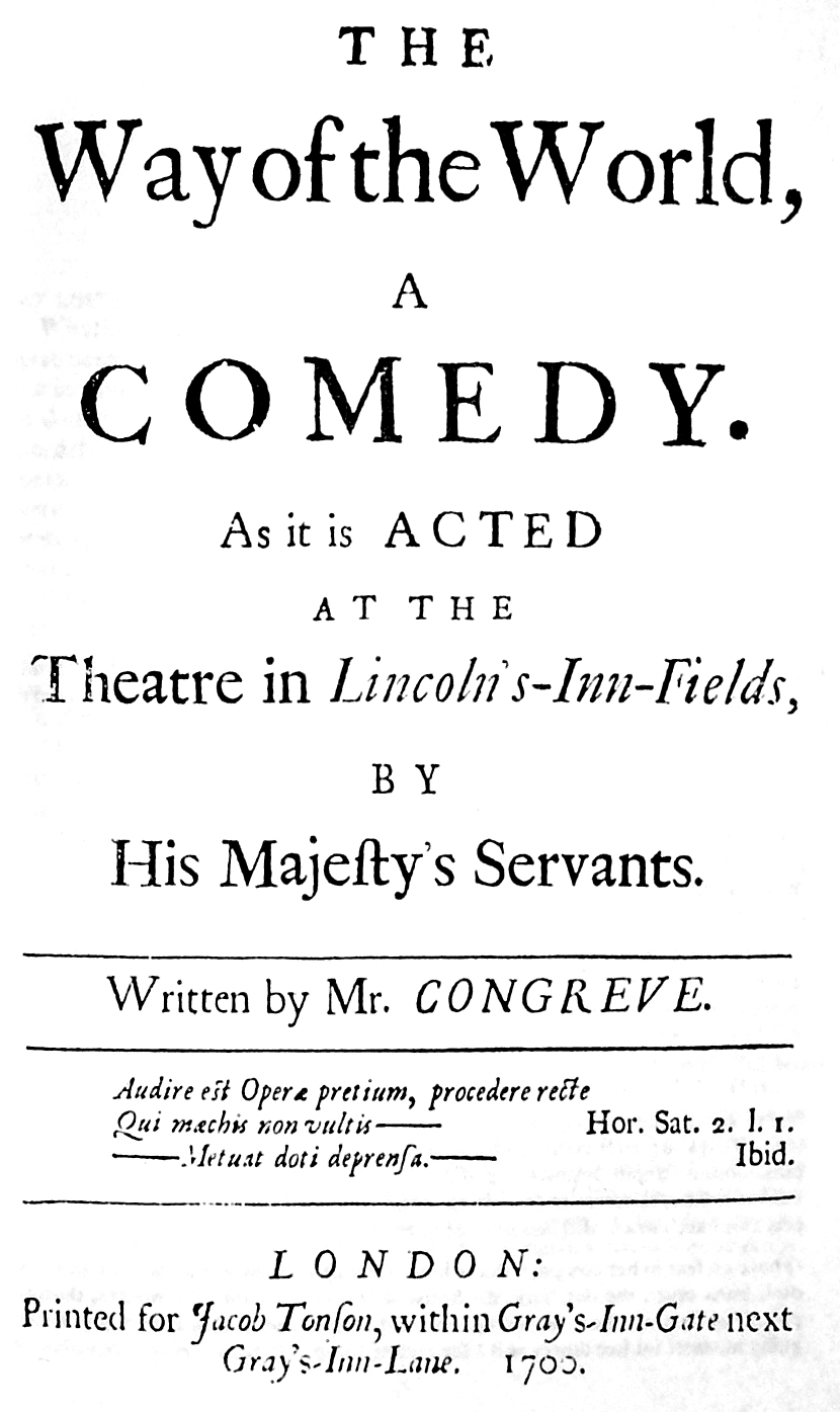 Facsimile of the original title page for William Congreve's The Way of the World, circa 1700. Taken from the 2000 New Mermaids edition, edited by Brian Gibbons. Published by A&C Black, London.